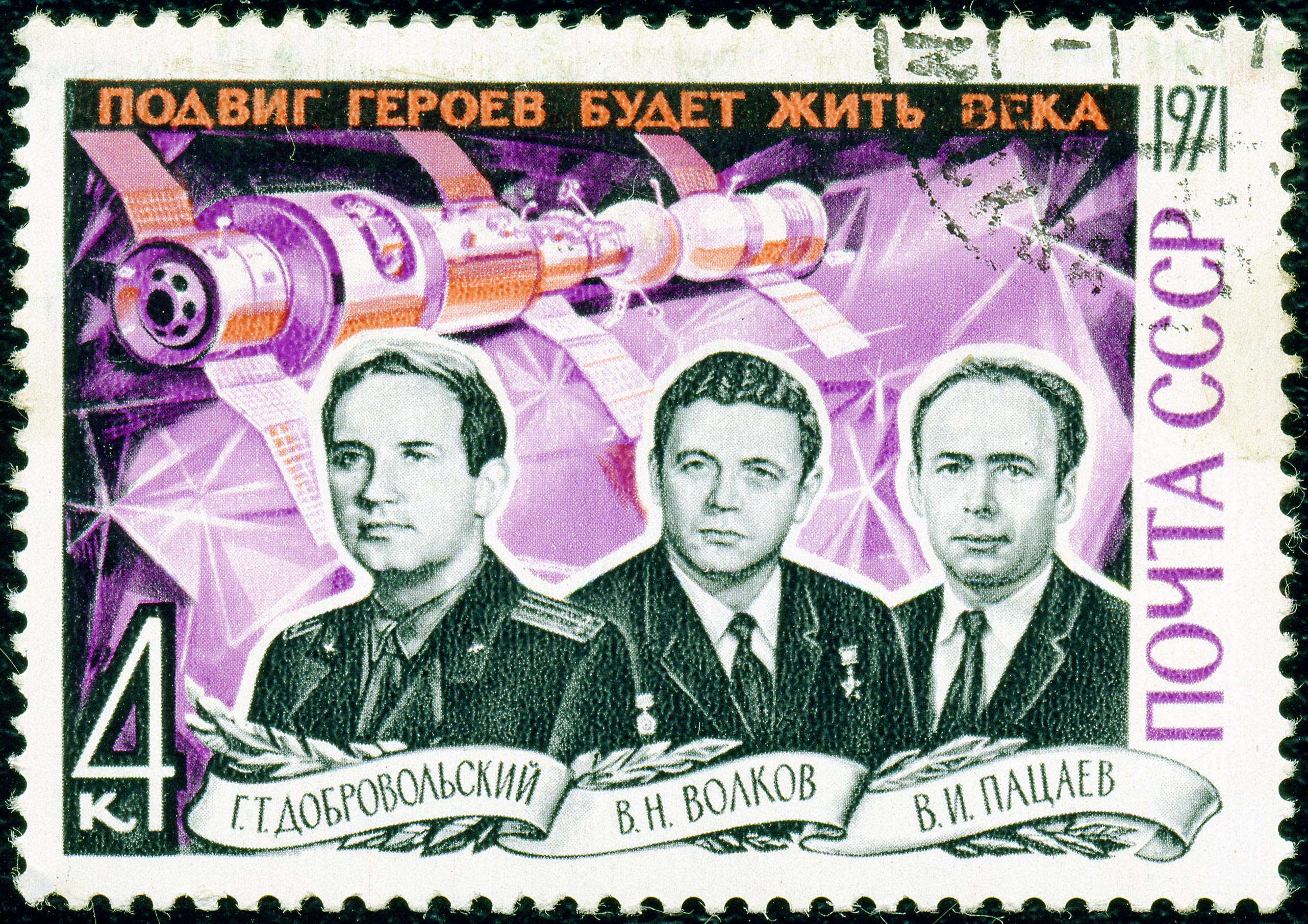 Soviet postal stamp commemorating the crew of Soyuz 11 spaceship that died in a spaceflight accident. The line says: "The deed of the heroes will live forever. Dobrovolsky, Volkov, Patsayev.